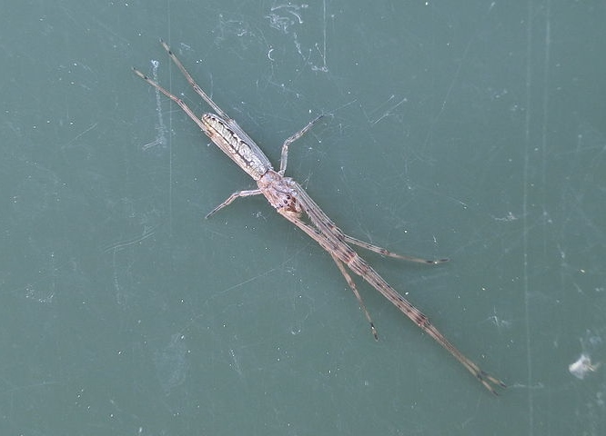 A long-jawed spider (Tetragnatha bituberculata) sitting vertically on a dark green bin.